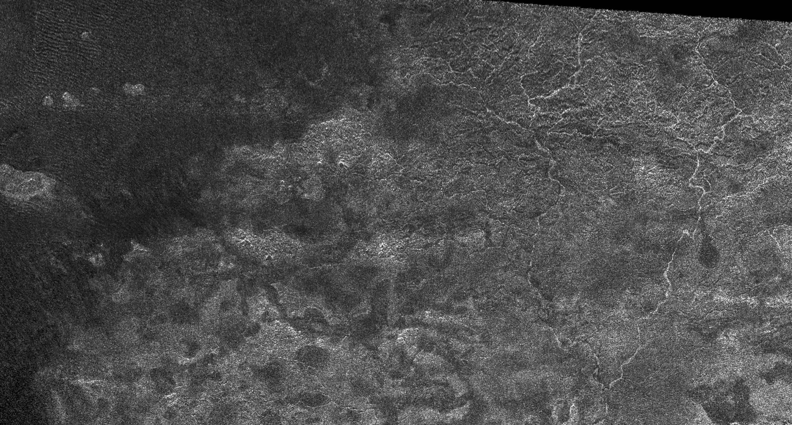 Original description: This image from the Synthetic Aperture Radar instrument on the Cassini spacecraft shows the radar-bright western margin of Xanadu, one of the most prominent features on Titan (see also PIA08425). In radar images, bright regions indicate a rough or scattering material, while a dark region might be smoother or more absorbing. The image was taken during a flyby of Titan on April 30, 2006. Narrow, sinuous, radar-bright channels, meandering like a maze, are seen on the right-hand-side of the image. These may be river networks that might have flowed onto the dark areas on the left of the image. Vast, dark areas covered by dunes are seen on the equatorial regions of Titan (see PIA03567) and have been referred to as Titan's "sand seas." Near the middle of the image is a radar-bright area that has a boundary with the dark sand seas. Because the radar illumination is coming from the top, this indicates that the bright region, Xanadu, is topographically higher than the sand seas.